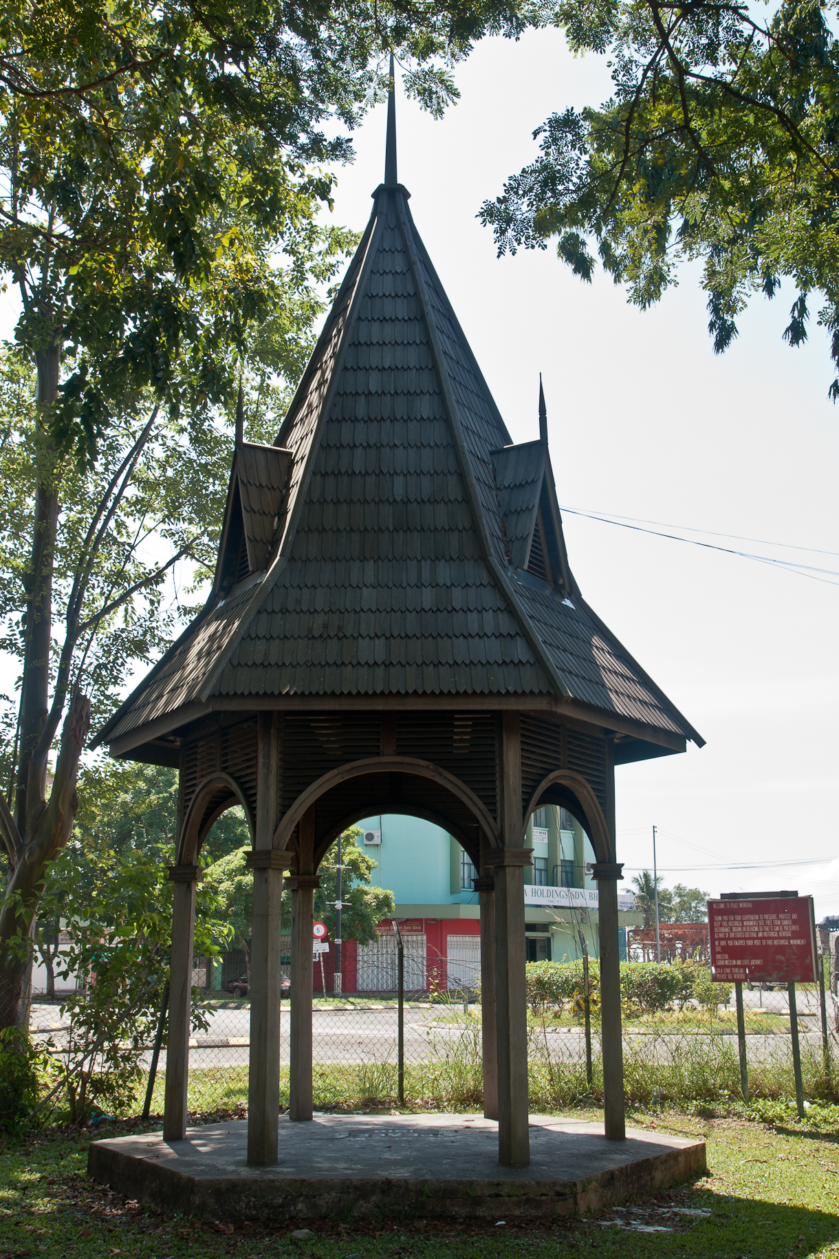 The historic belfry of Tawau, Sabah, Malaysia; it's the last historic pre-war building of Tawau